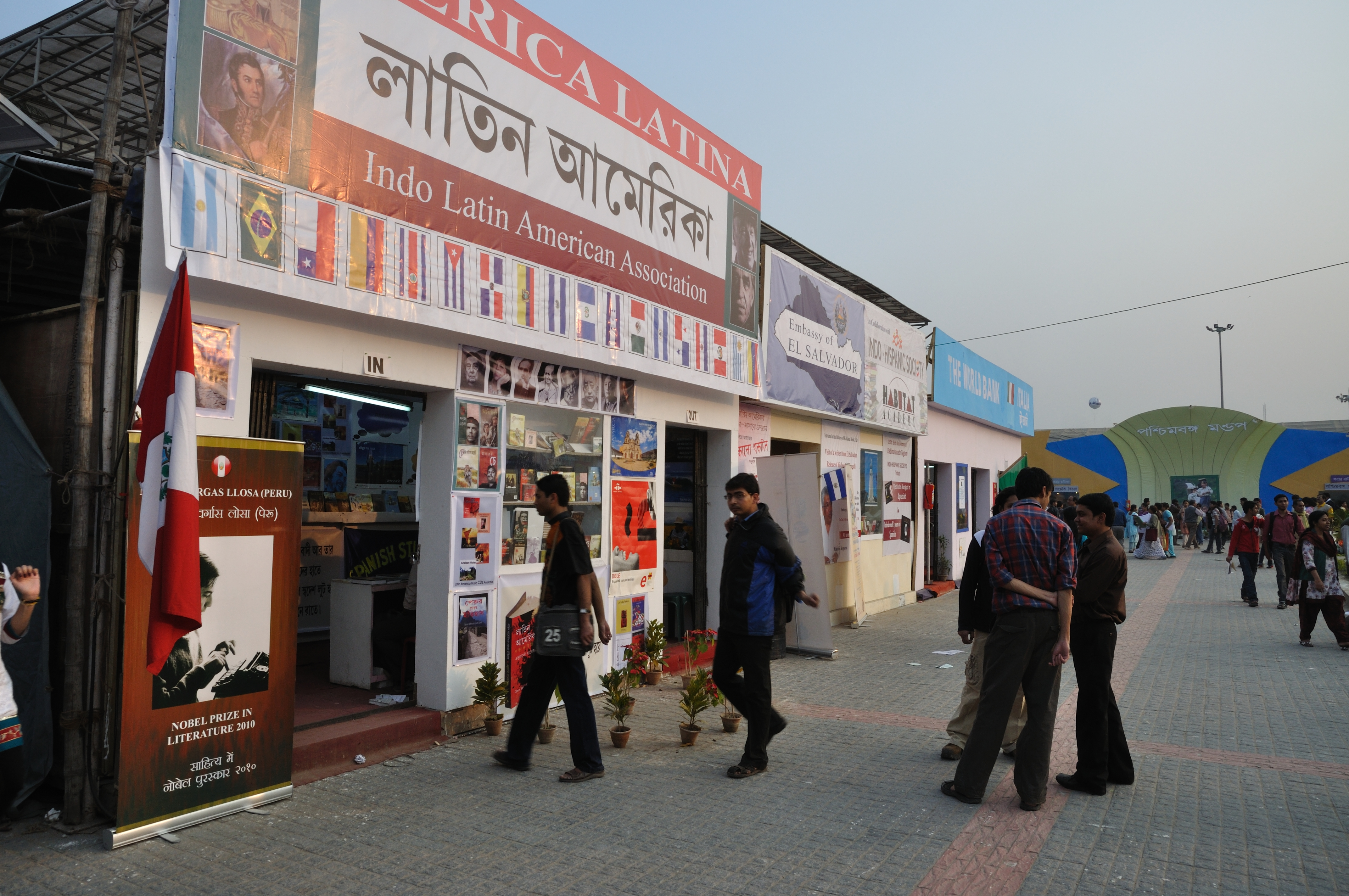 The Kolkata Book Fair (Old name: Calcutta Book Fair in English, and officially Kolkata Boimela or Kolkata Pustakmela,is a winter fair in Kolkata. It is a unique book fair in the sense of not being a trade fair - the book fair is primarily for the general public rather than whole-sale distributors. It is the world's largest non-trade book fair, Asia's largest book fair and the most attended book fair in the world. In 2011, the fair took place at ‘Milan Mela’ ground from 26th january to 6th February, opposite of ‘Science City’, Kolkata.